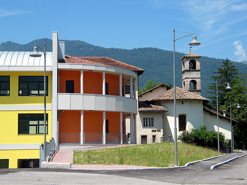 La chiesa dei Santi Quirico e Giulitta a Campo